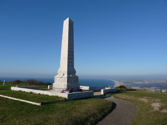 Portland: war memorial above Chesil Beach Past the war memorial, at New Grounds at the top of the island, there are stunning views along Chesil Beach and over Portland Harbour.